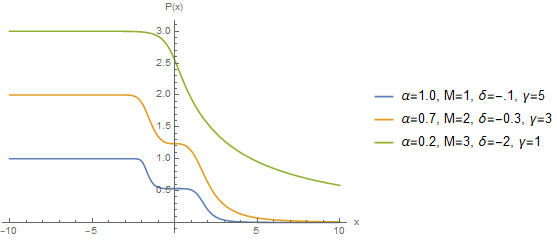 Hyperbolastic Type II with negative delta values.